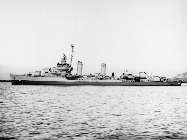 The U.S. Navy destroyer USS Kalk (DD-611) off the Mare Island Naval Shipyard, California (USA), on 27 December 1942. Kalk was undergoing repairs at the yard between 14 and 27 December 1942.